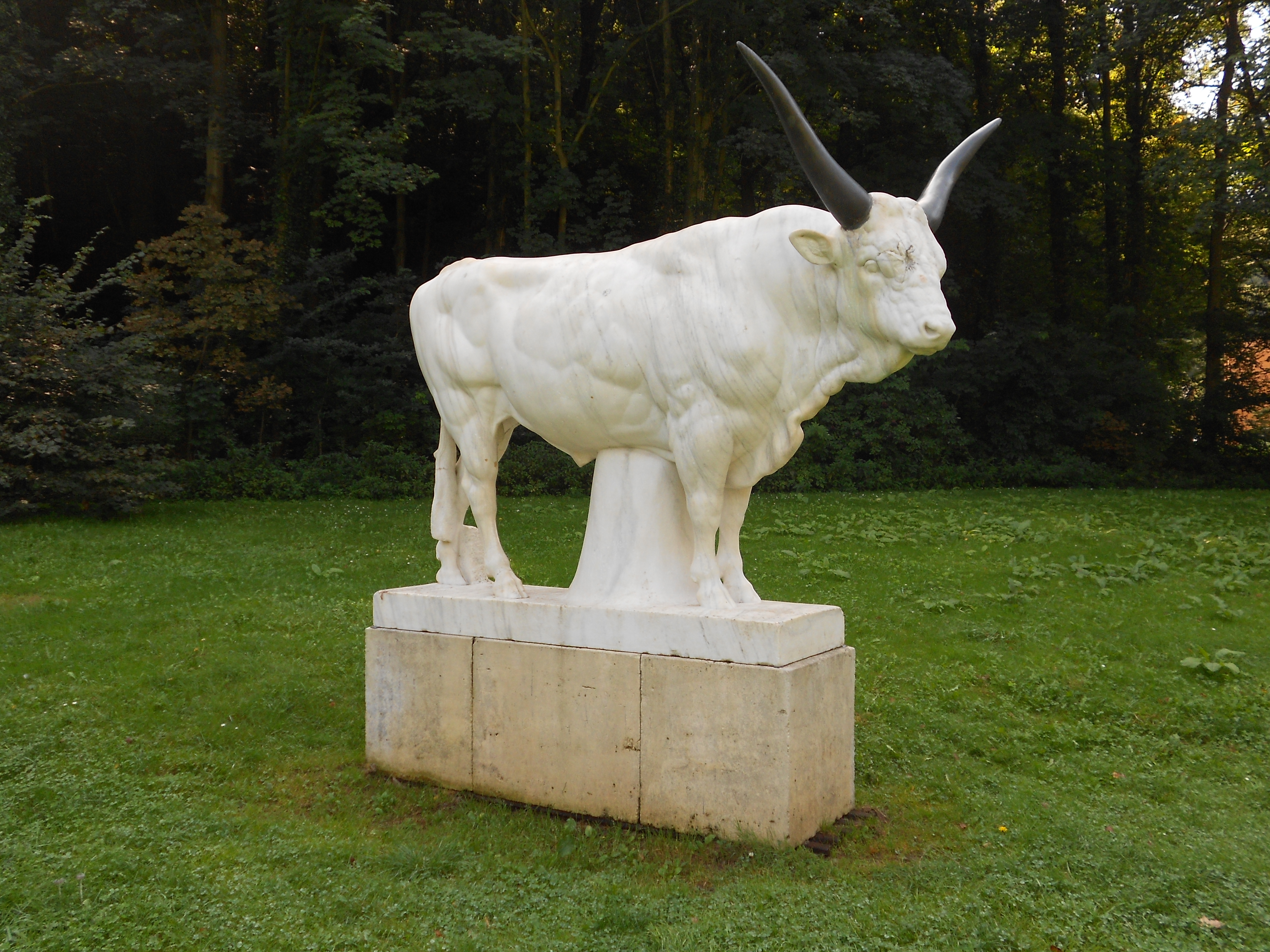 Statue of Louis Tuaillon in Fachklinik und Moorbad Bad Freienwalde